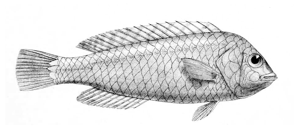 Cirrhites forsteri, =Calotomus viridescens (Rüppell, 1835).